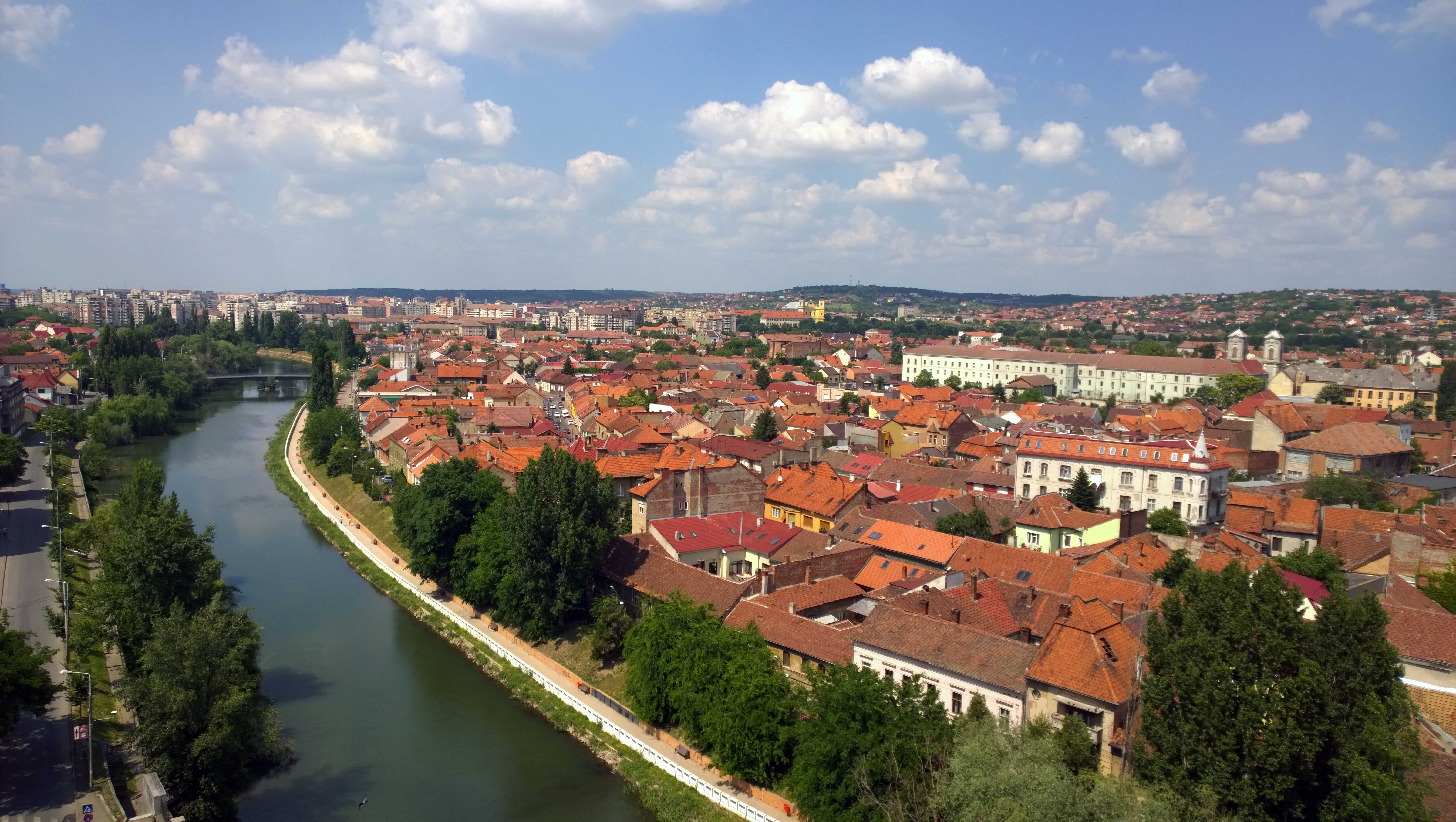 Crisul Repede within Oradea